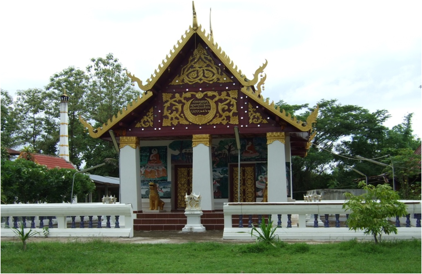 Ban Fai บ้านฝาย หมู่ที่ 1 ตำบลบ้านฝาย อำเภอน้ำปาด จังหวัดอุตรดิตถ์